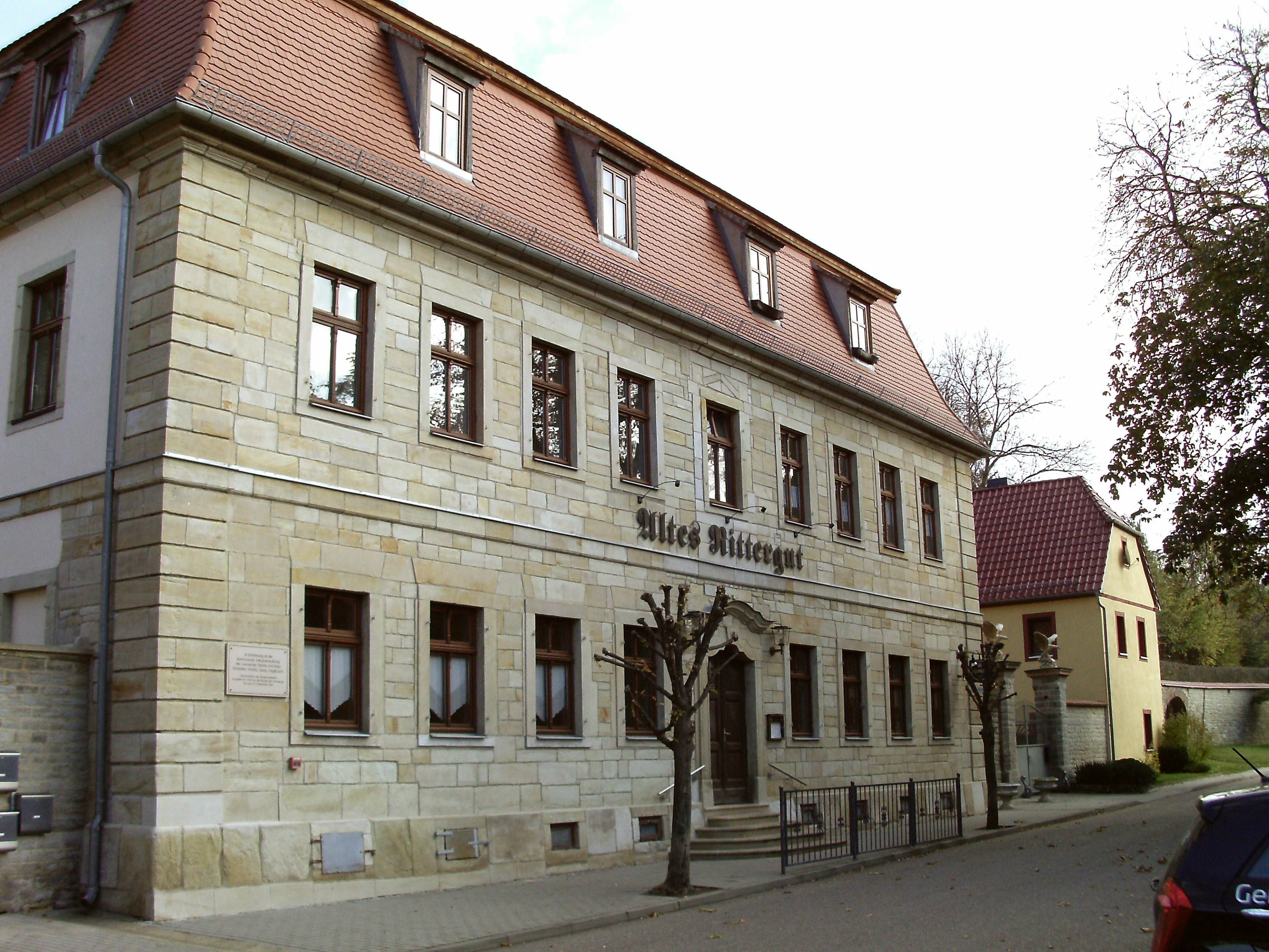 New manor house of Dehlitz estate (Lützen, district of Burgenlandkreis, Saxony-Anhalt)